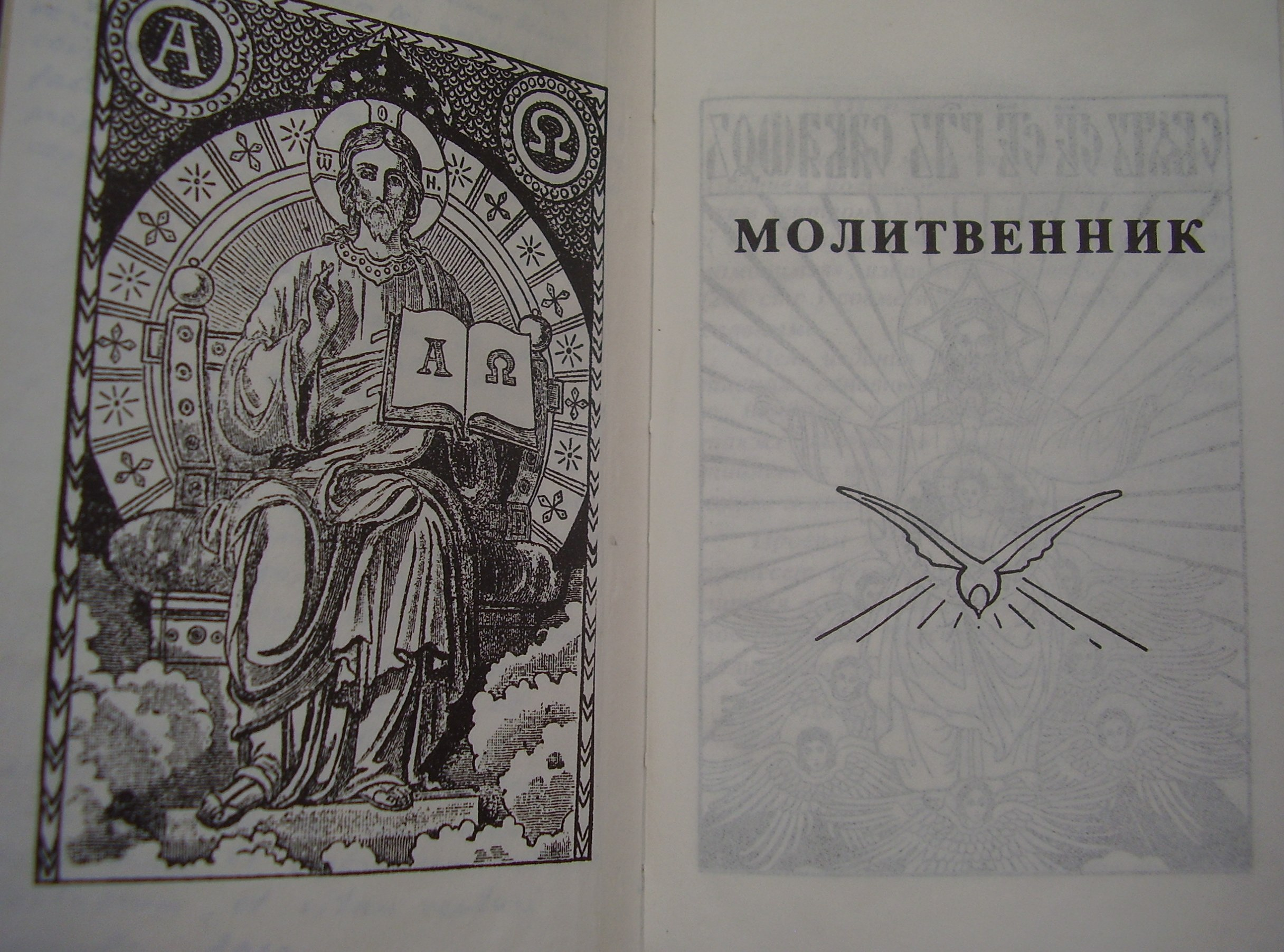 Printed by the publishing house "Life with God"